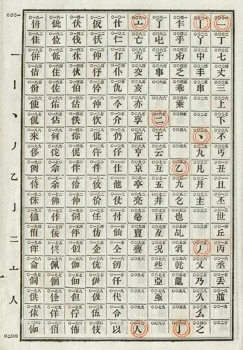 Obsolete Chinese telegraph codes from 0001 to 0200. Each cell of the table shows a four-digit numerical code written in Chinese, and a Chinese character corresponding to the code. This is part of Septime Auguste Viguier’s New Book for the Telegraph (電報新書) published in Shanghai in 1872. Viguier developed this code succeeding Hans Carl Frederik Christian Schjellerup’s earlier work. See Chinese telegraph code.